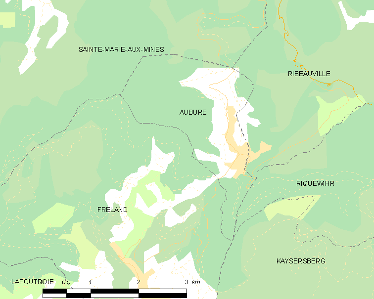 Map of French municipality